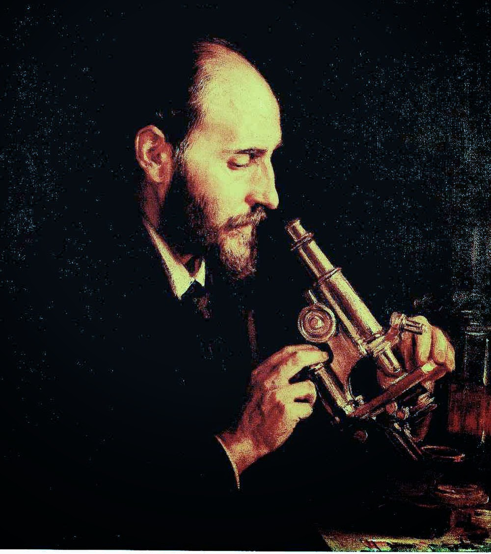 Santiago Ramón y Cajal (1852-1934). Portrait in 1906, by R. Madrazo y Garreta. Madrid Athenaeum